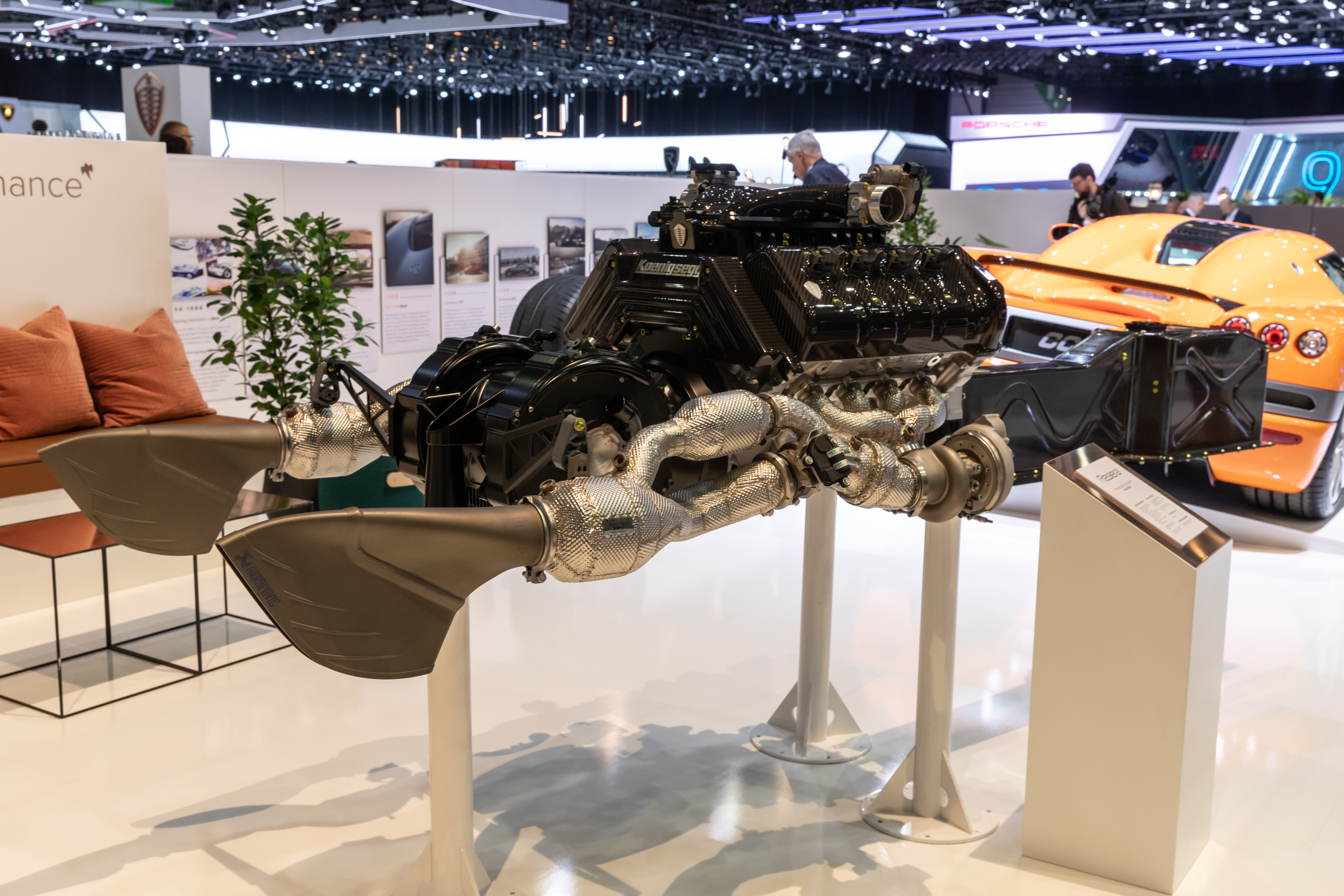 Geneva International Motor Show 2019, Le Grand-Saconnex